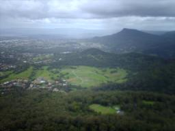 Mount Nebo seen from Mount Keira with Mount Kembla in the background